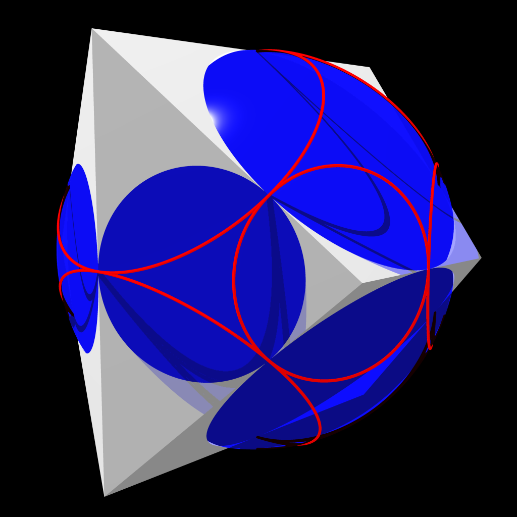 The midsphere of a polyhedron. The red circles indicate the points at which a cone, with its apex at a vertex, is tangent to the sphere. Rendered in POV-ray based on a different rendering of the same model from D. Eppstein (2005), Quasiconvex programming, Combinatorial and Computational Geometry, Goodman, Pach, and Welzl, eds., MSRI Publications 52, 2005, pp. 287-331, arXiv:cs.CG/0412046.